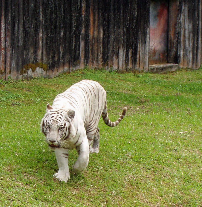 The rare white Bengal Tiger in the Pana'ewa rainforest zoo in Hilo, Hawaii.